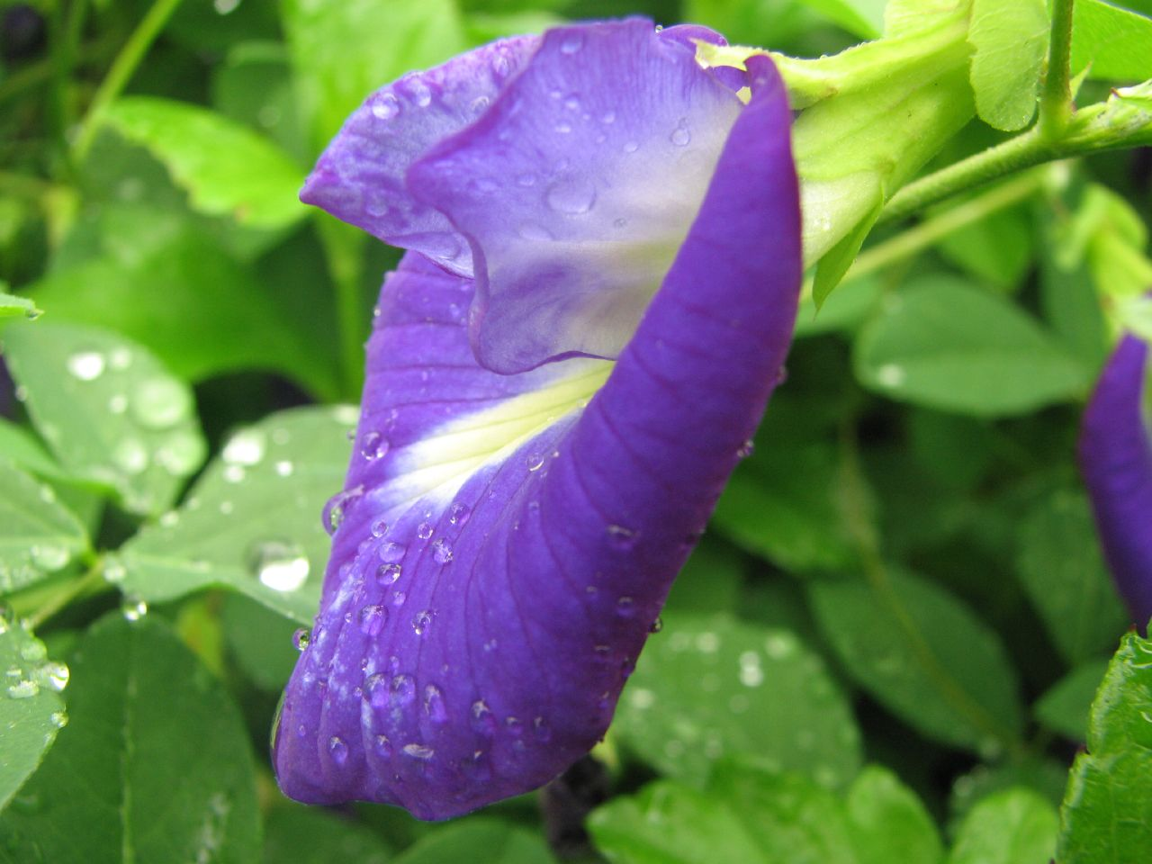 this too!